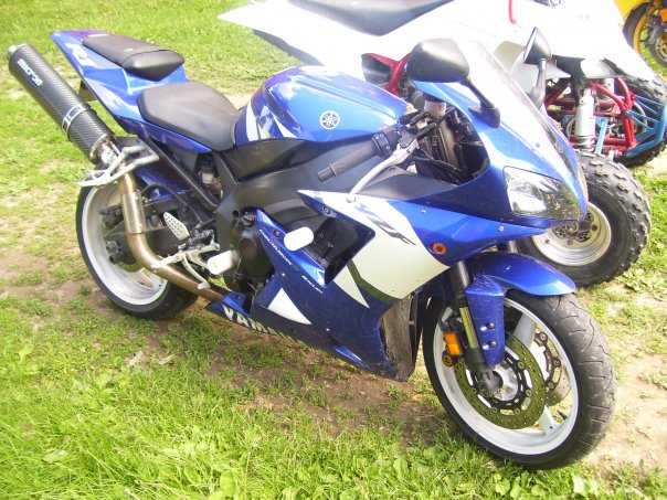 YZF-R1